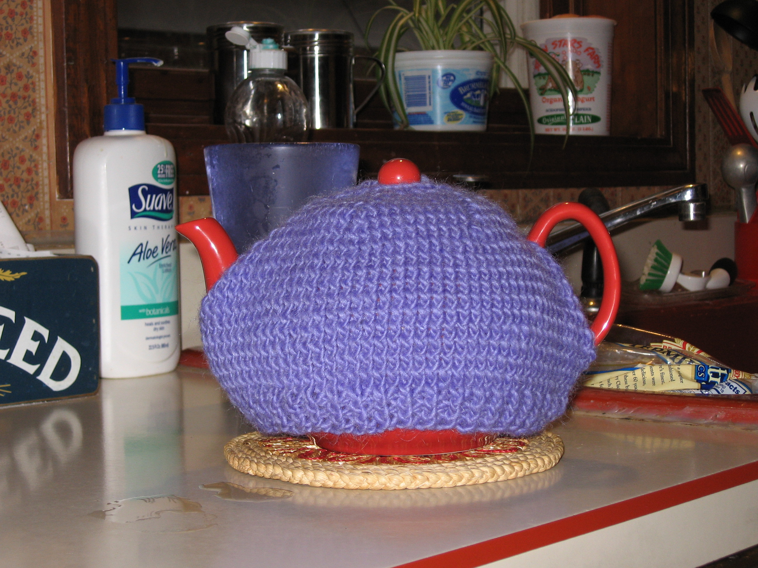 Tea cozy